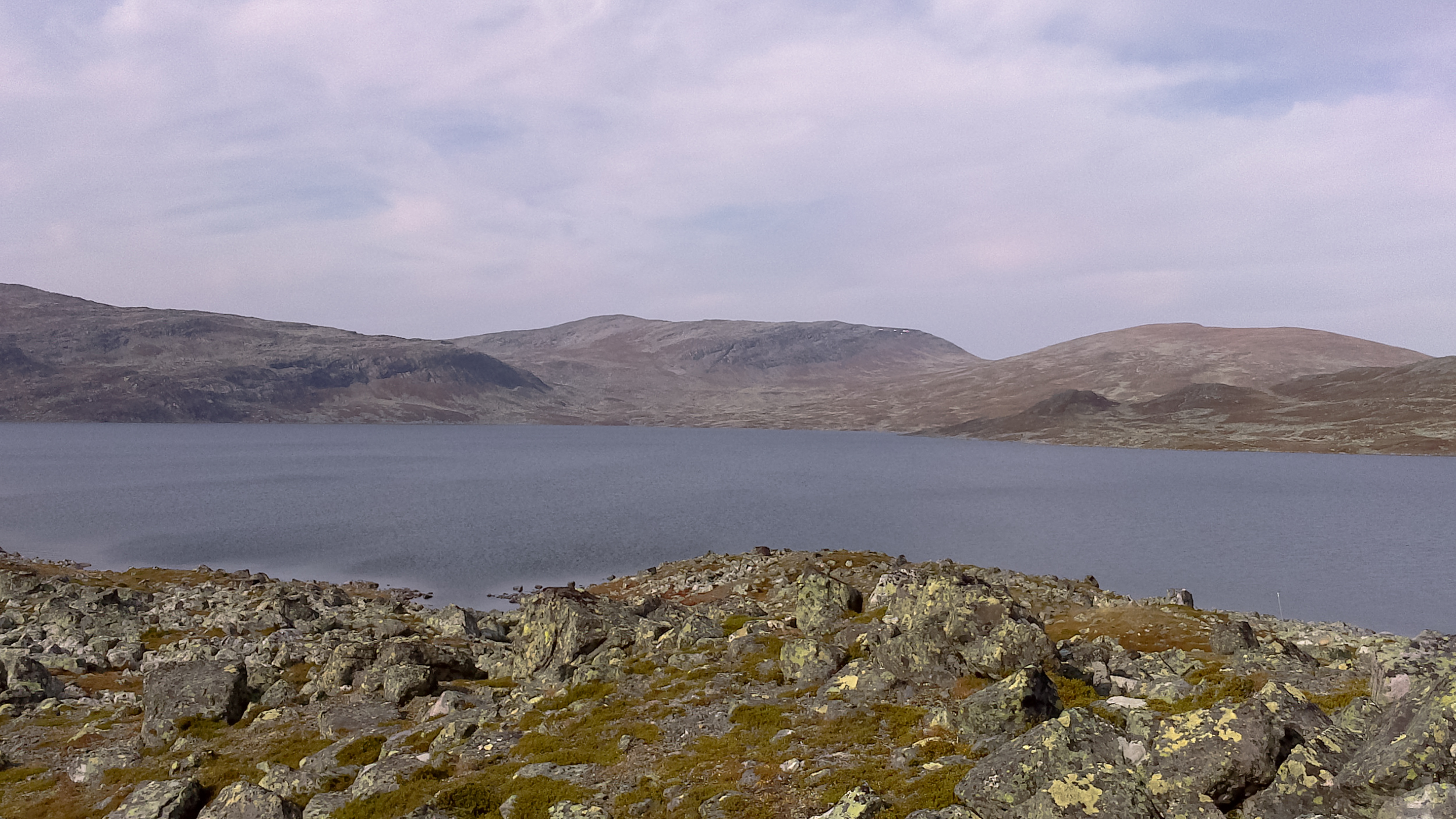 Dörrsjön.